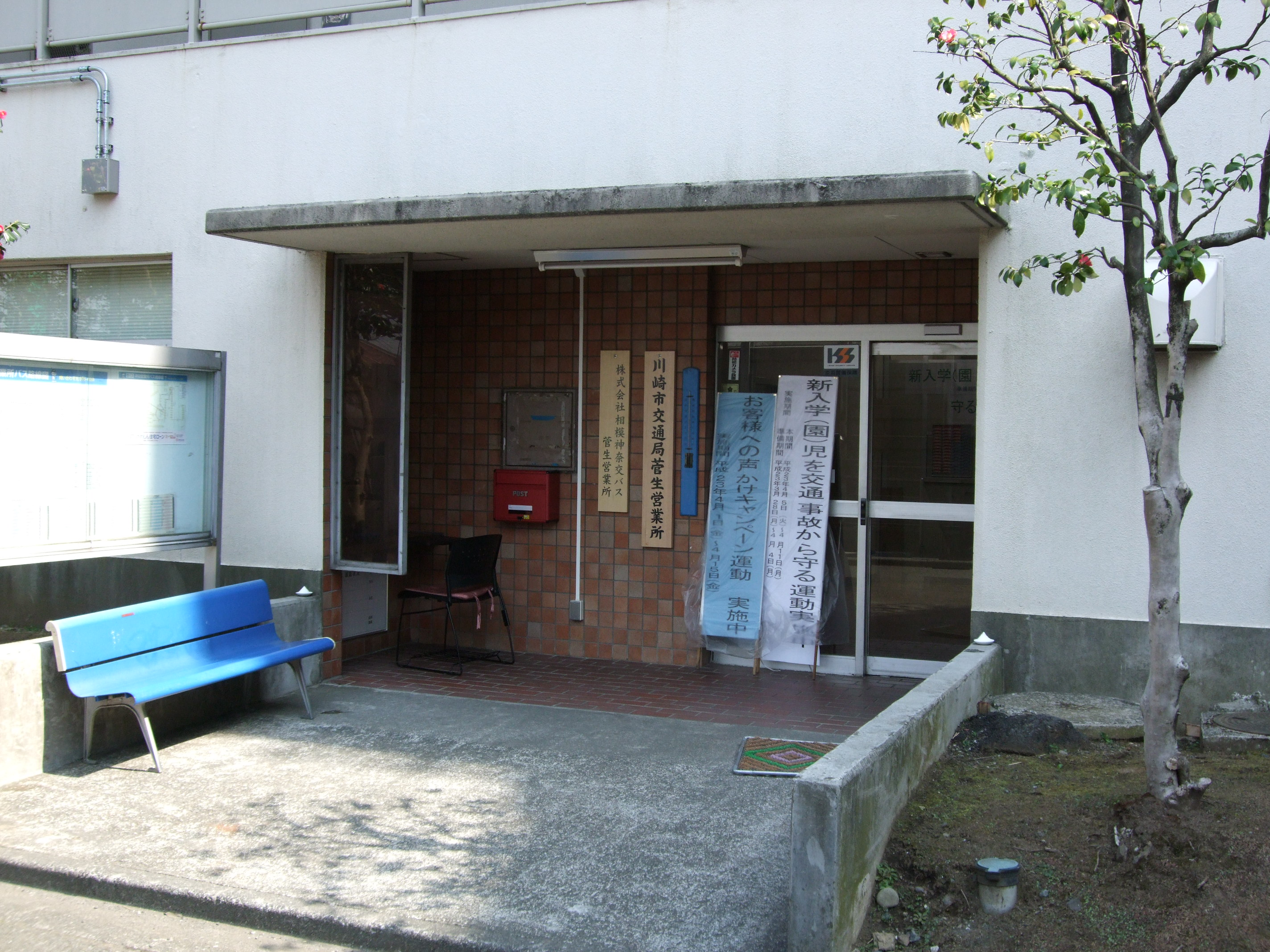 Kawasaki city bus Sugao Dept.Office